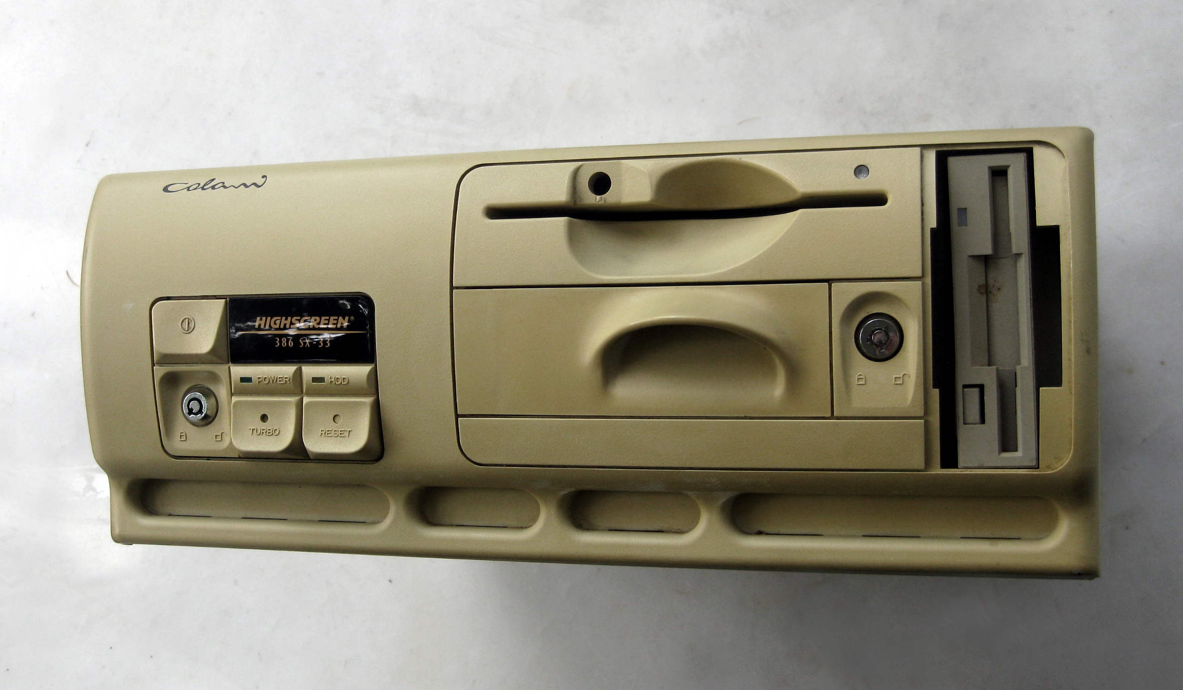 Vobis Highscreen PC, designed by Lutz "Luigi" Colani . Originally, the colour was white, the brownish look is due to aging of the plastic material.